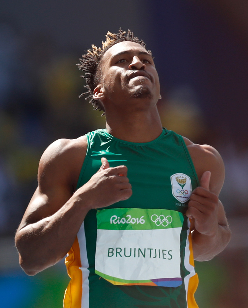 Men's 100 m sprint heats, Rio Olympics